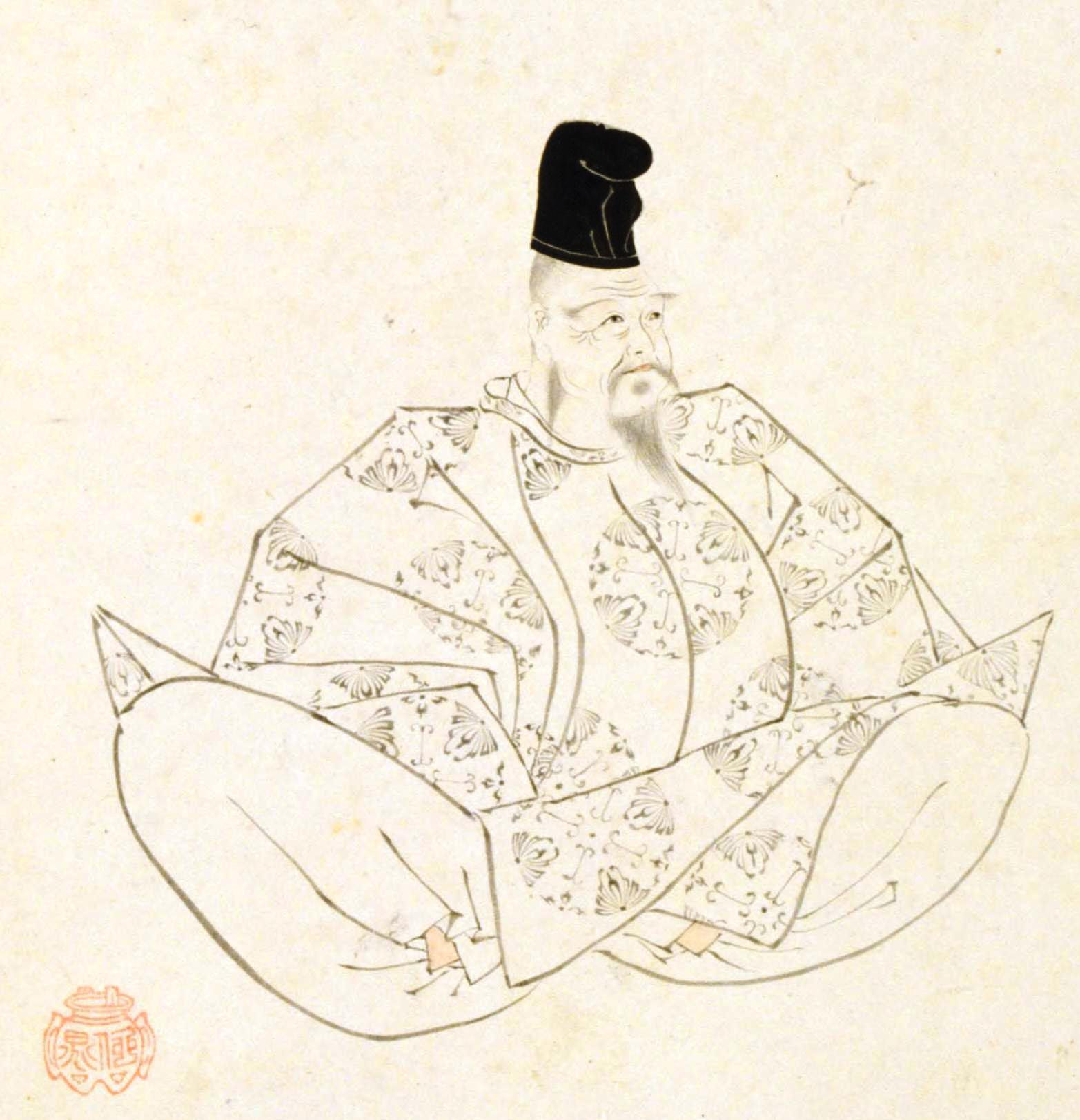 Portrait of Yoshida Takanaga